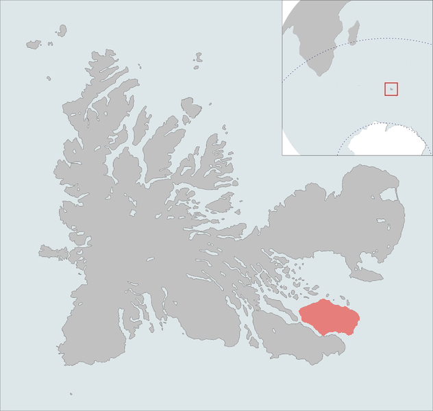 Position of Presqu'île Ronarc'h, in the Kerguelen Islands. Drawn by Varp and coloured by lal.sacienne.